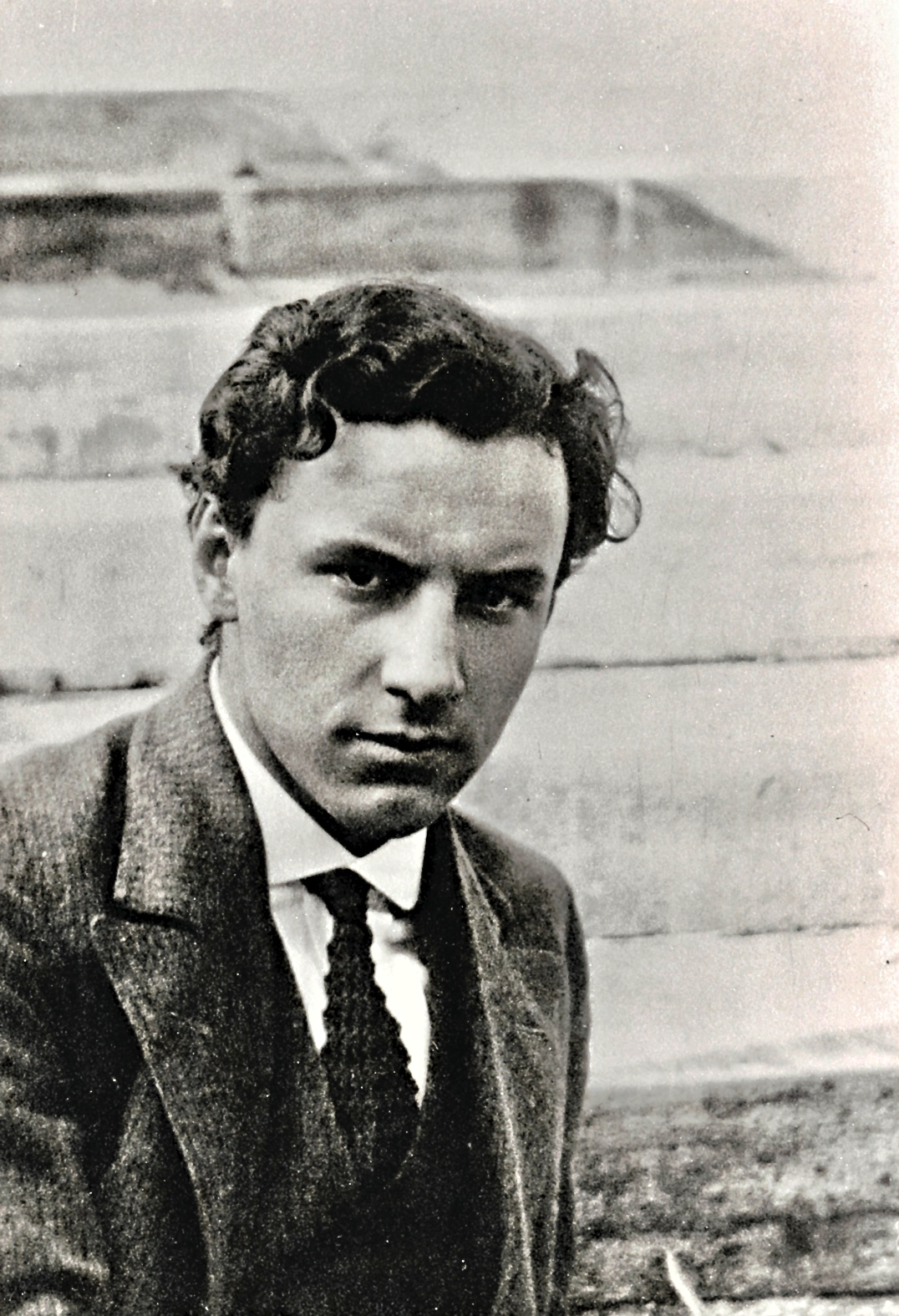 The geologist and cinematographer Arnold Heinrich Fanck was born on March 6, 1889 in Frankenthal, Rhine Circle, Germany. He died September 28, 1974 in Freiburg im Breisgau, Baden-Württemberg, Germany.